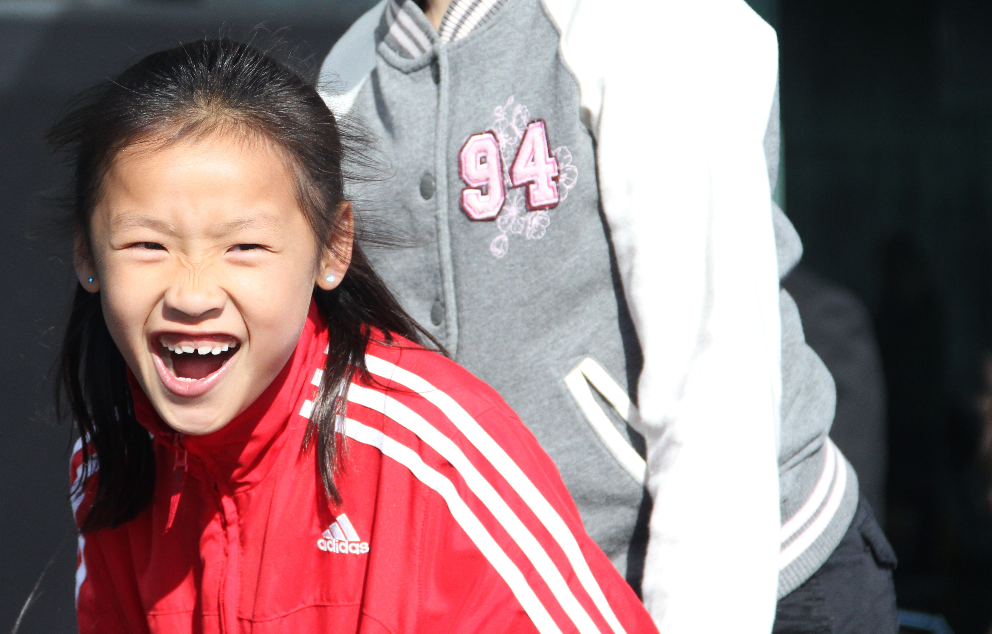 A good time